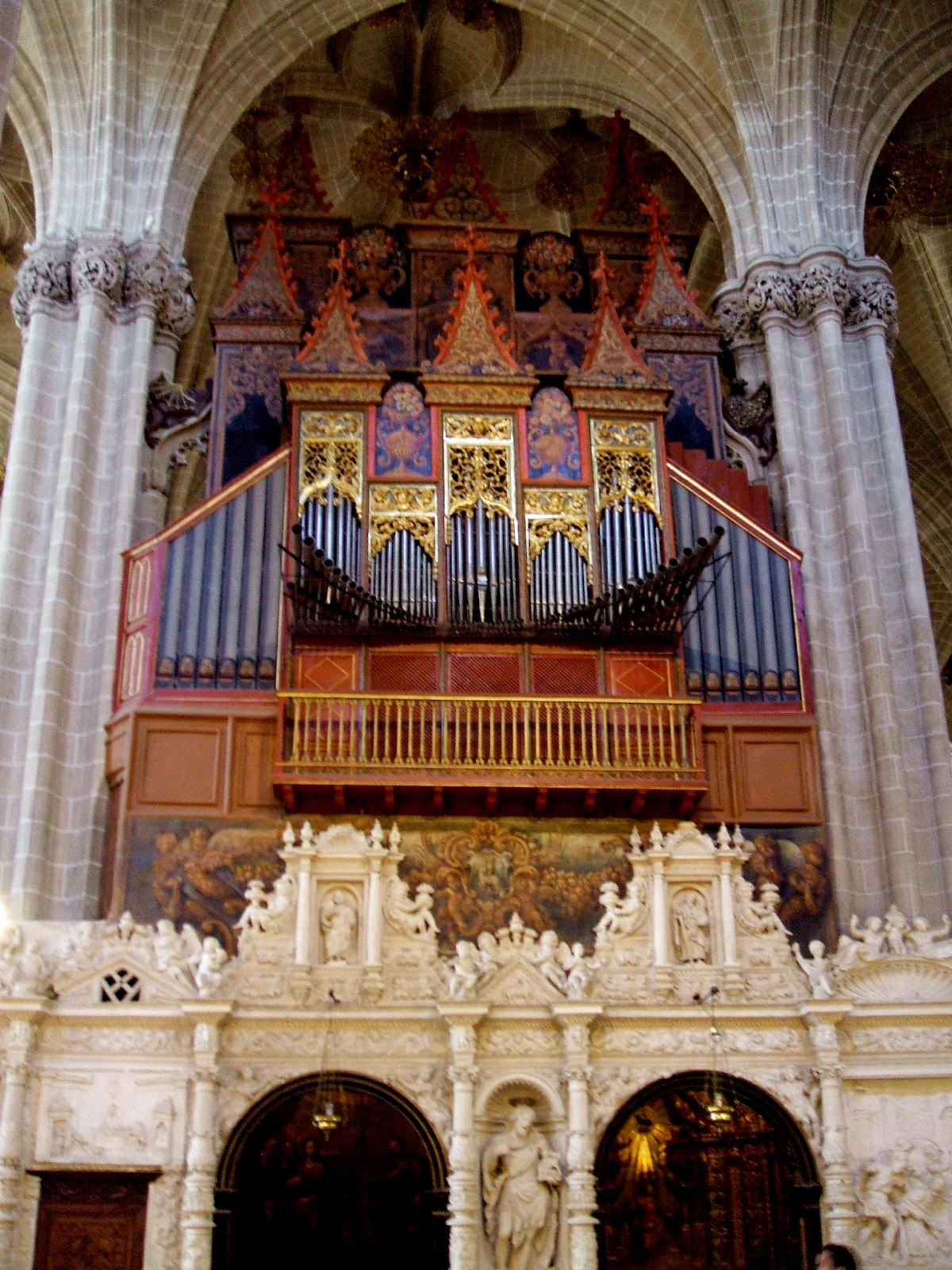 Órgano de la Catedral del Salvador (La Seo) de Zaragoza (Aragón, España)